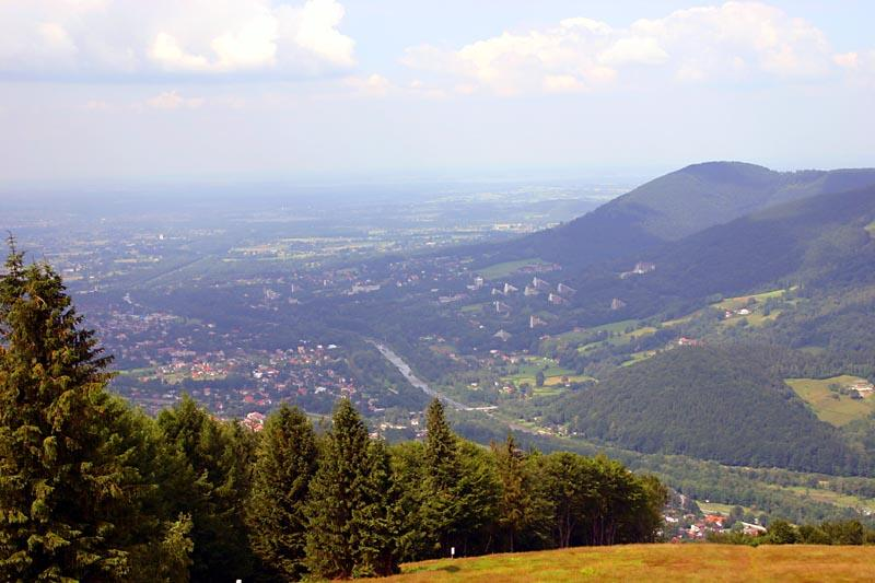 Ustron (Poland)